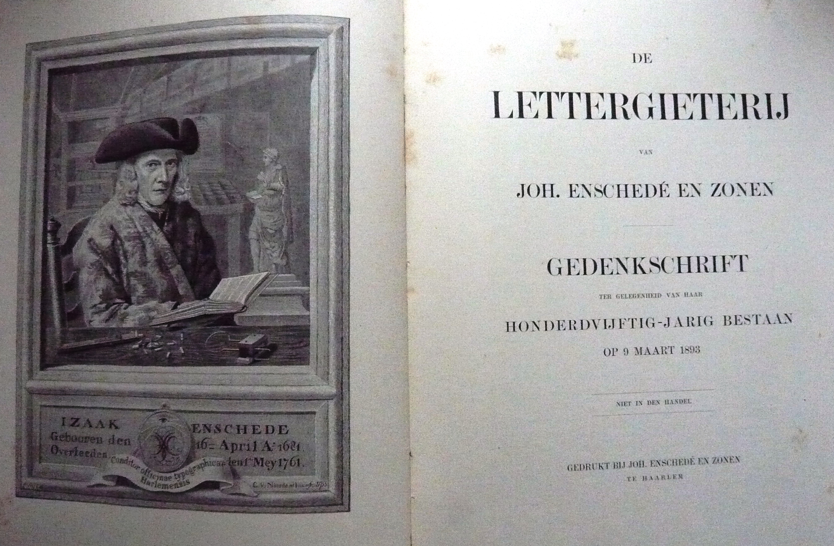 Illustration from Haarlem printing company Joh. Enschedé anniversary publication, produced on the occasion of their 150th anniversary in 1893 Lettergieterij Gedenkschrijft 1743-1893, with engraving by Cornelis van Noorde of company founder Izaak Enschedé as frontispiece